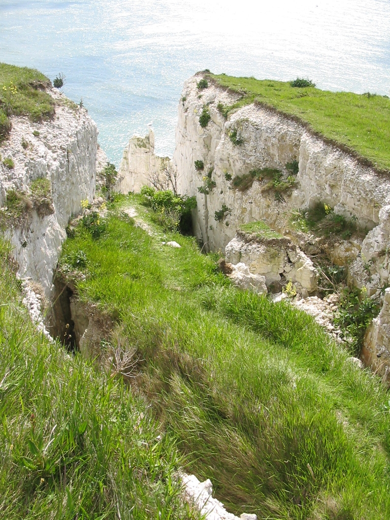 I took this picture myself on 14/05/05.